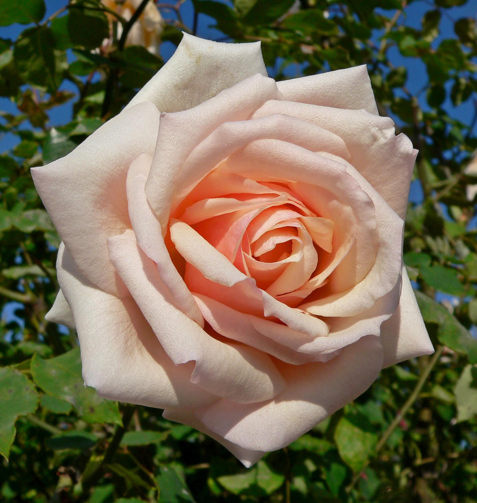 Photo of Rosa 'Catherine Mermet' at the San Jose Heritage Rose Garden